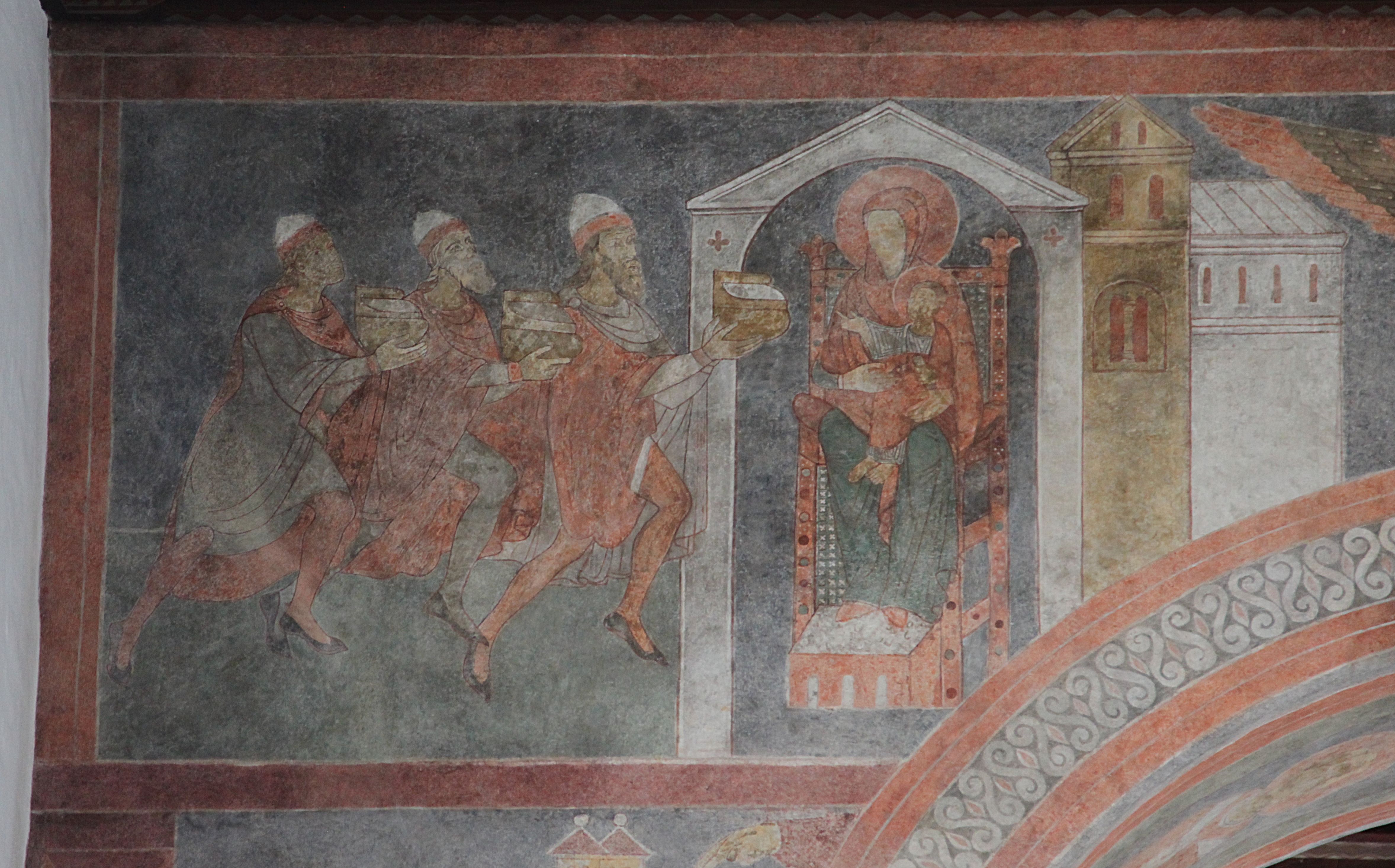 Fresco in Fjenneslev Church